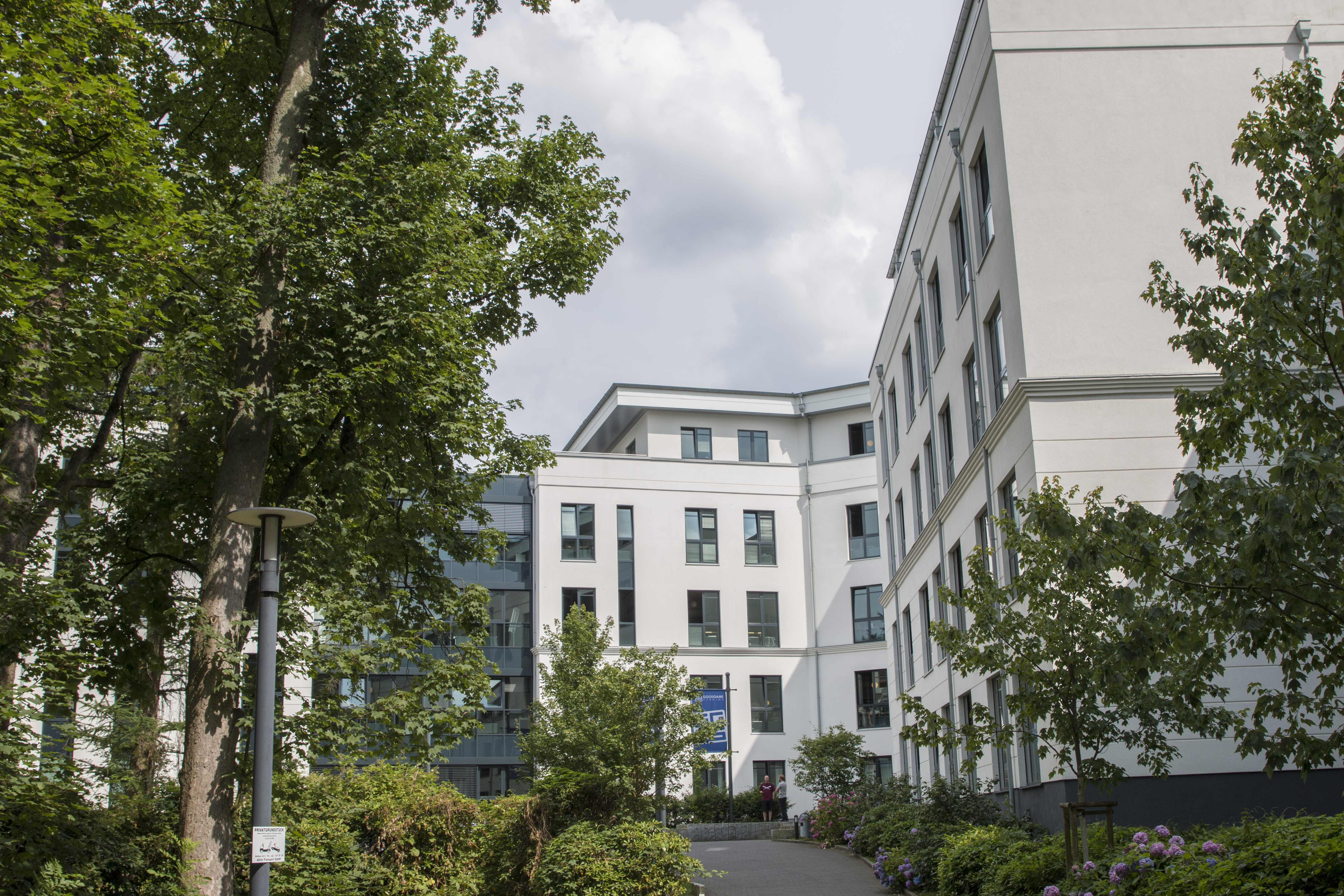 Headquarter of Goodgame Studios, Hamburg